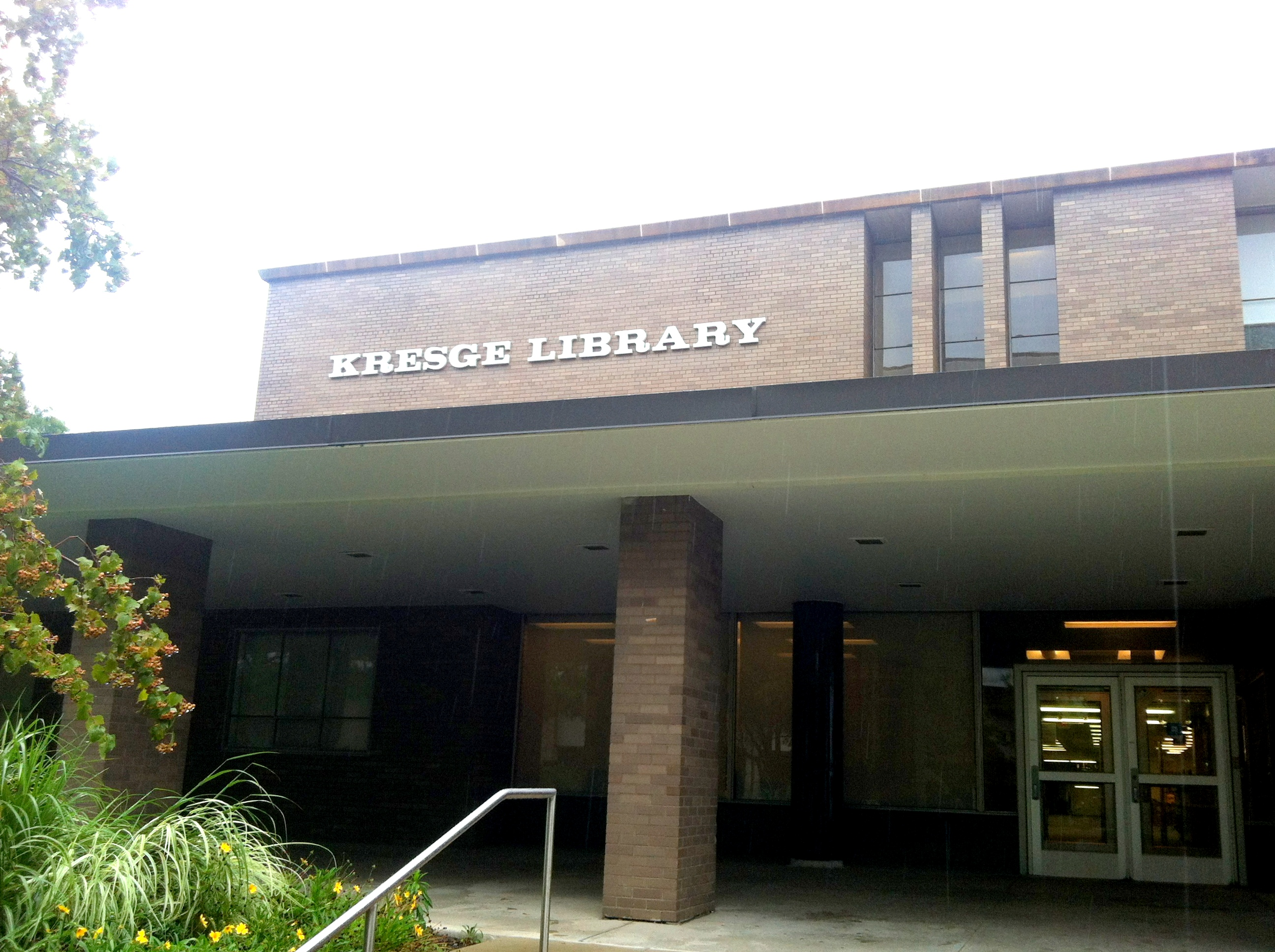 This photo was taken on the main campus of Wayne State University of the main doors of the Purdy Kresge Library.